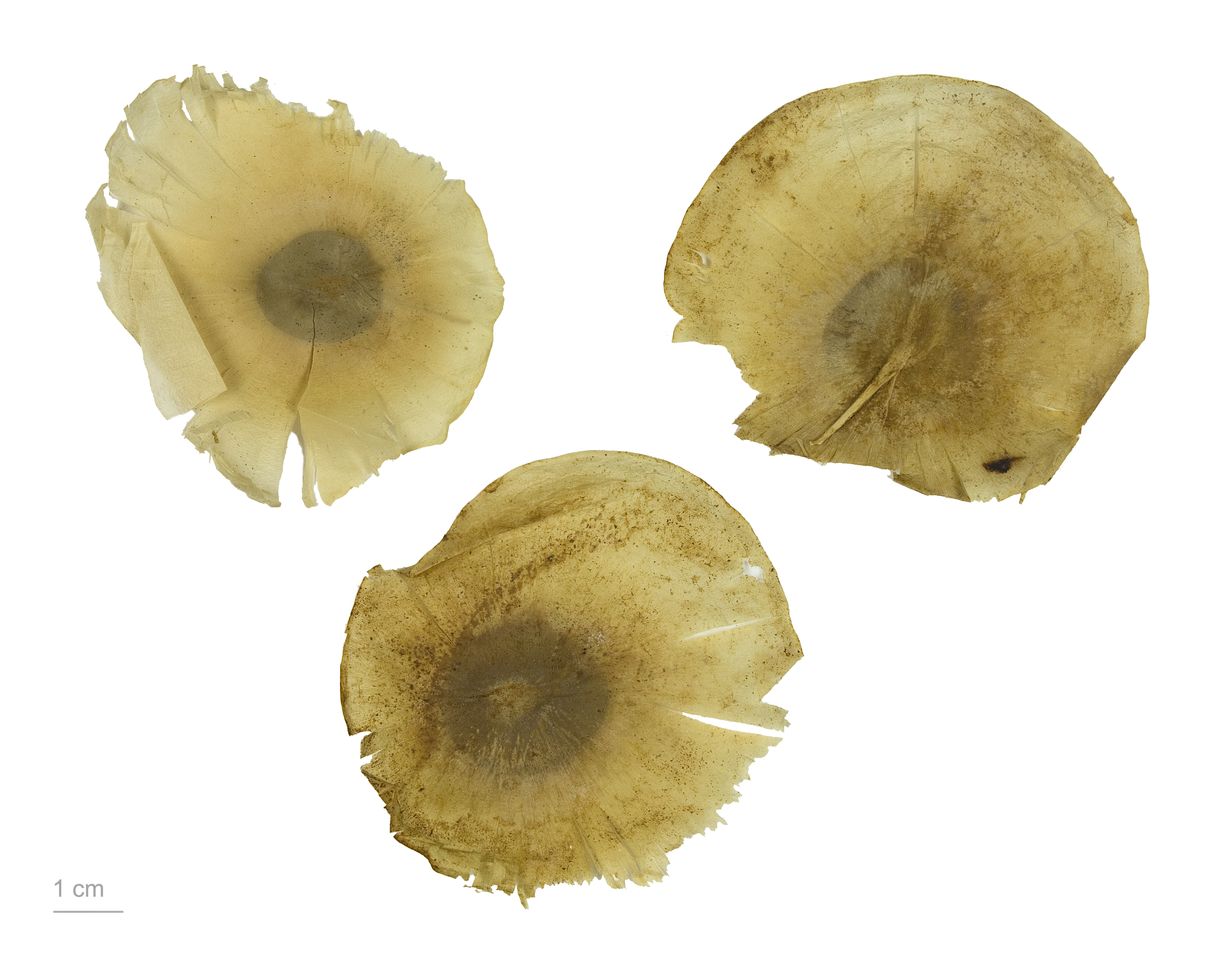 Quebracho , fruits and seeds